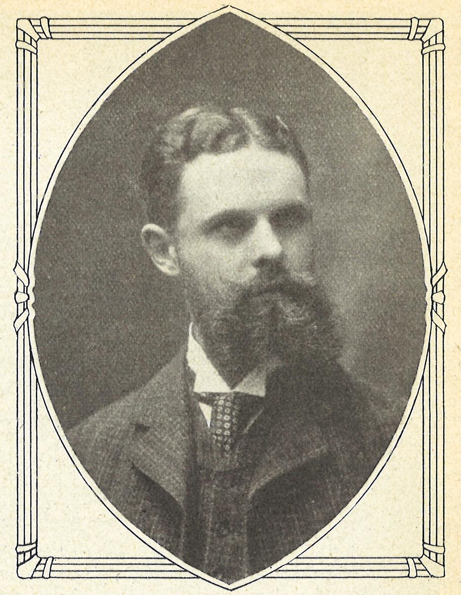 Fredrik af Klercker (1869-1941), Swedish diplomat.